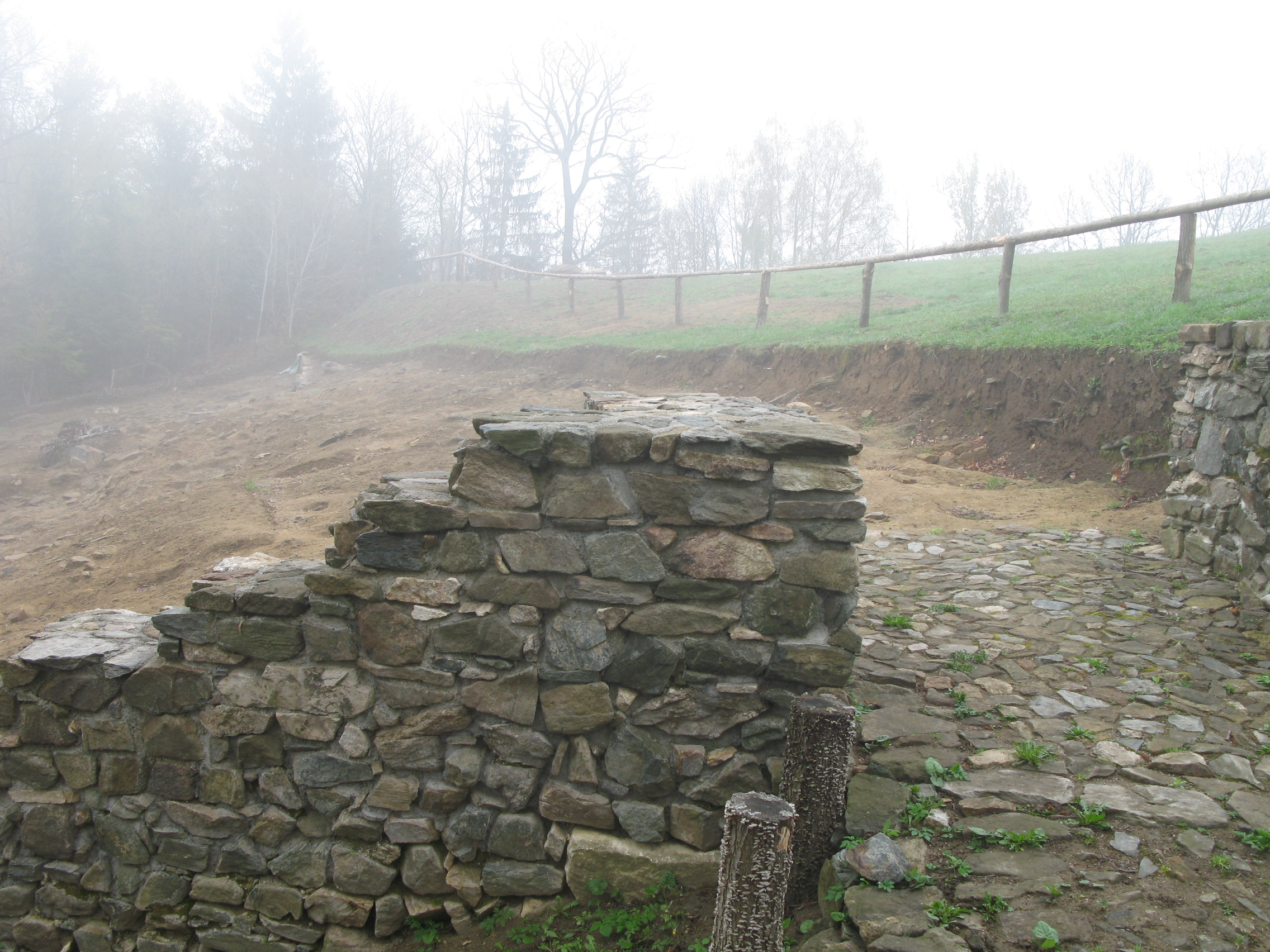 Remains of Ančnik fort